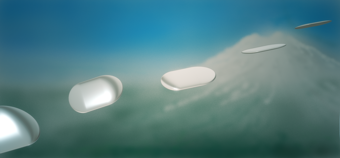 Illustration of 5 craft (out of a total of 9) seen from a distance of 23 miles by Kenneth Arnold on 24 June 1947. The 9 craft flew at an altitude of 9,500-10,000 ft while transiting the c.47 mile distance between Mt Rainier and Mt Adams in southern Washington state, USA, in only 1 min. 42 s. This depiction is based more or less on Arnold's notes and drawings, which describes them as "mirror bright" and "longer than wide". They travelled in a chain like a flock of geese, diagonally stepped-down over a 5 mile distance, while weaving from side to side like the tail of a Chinese kite. When banking their mirror-like surfaces caused flashes of light.